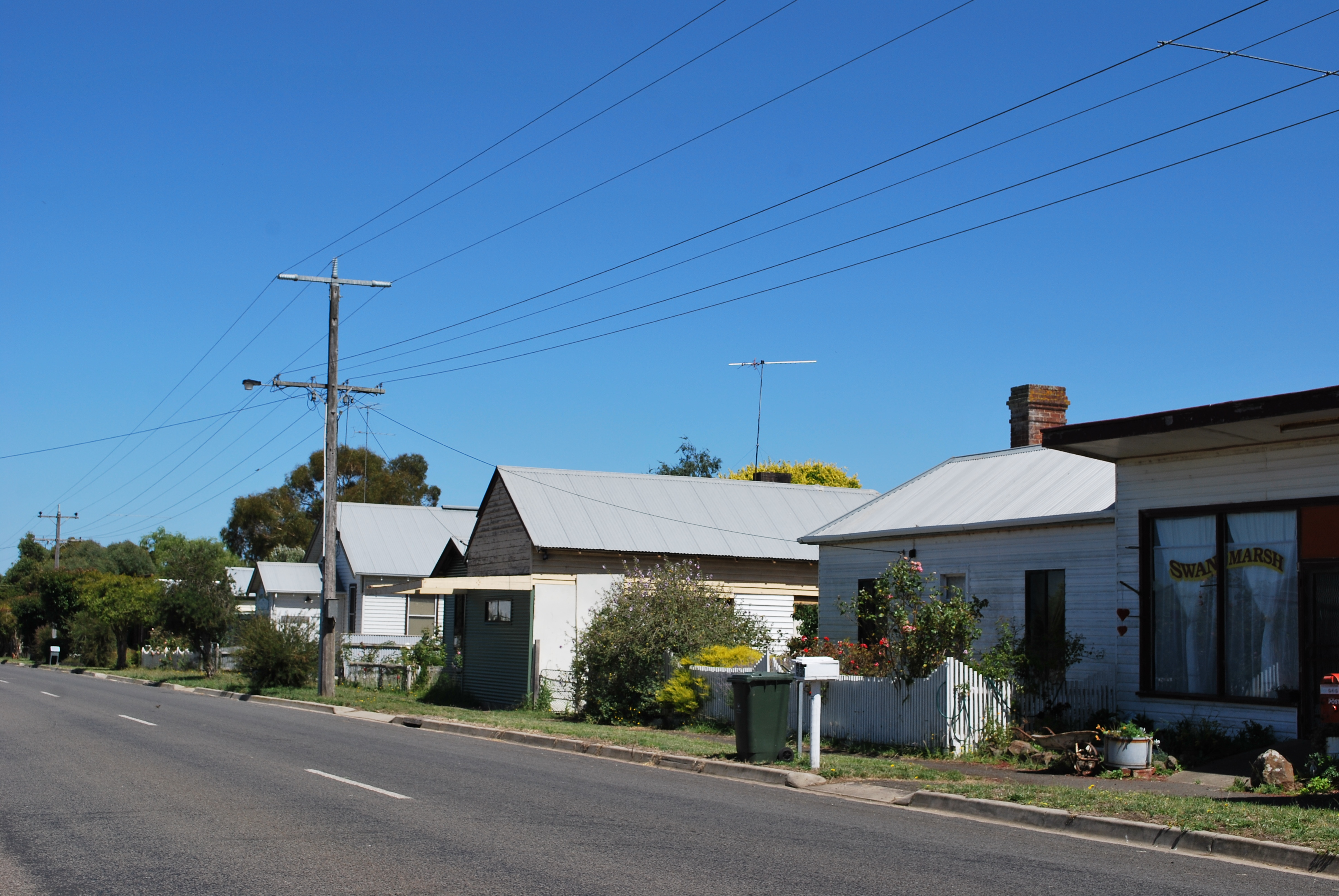 Houses at Swan Marsh, Victoria